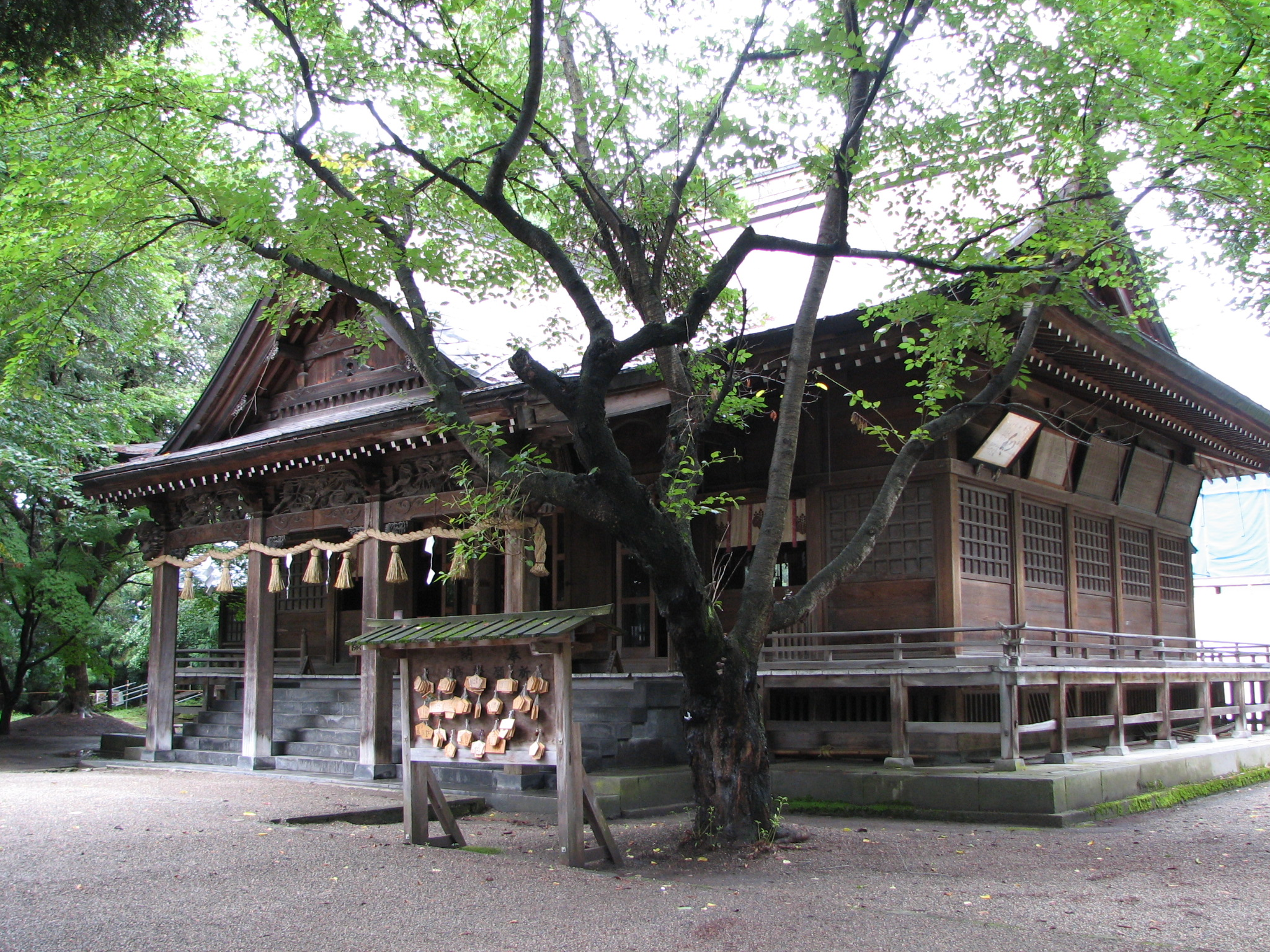 the haiden of Saruga Shrine, Hirakawa, Aomori, Japan 猿賀神社拝殿（青森県平川市）